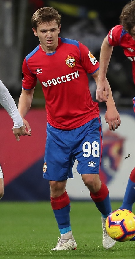 Ivan Oblyakov with PFC CSKA Moscow in a game against FC Krasnodar.